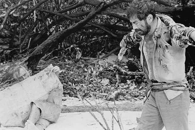 Toshiro Mifune character in filming of Hell in the Pacific (1968)